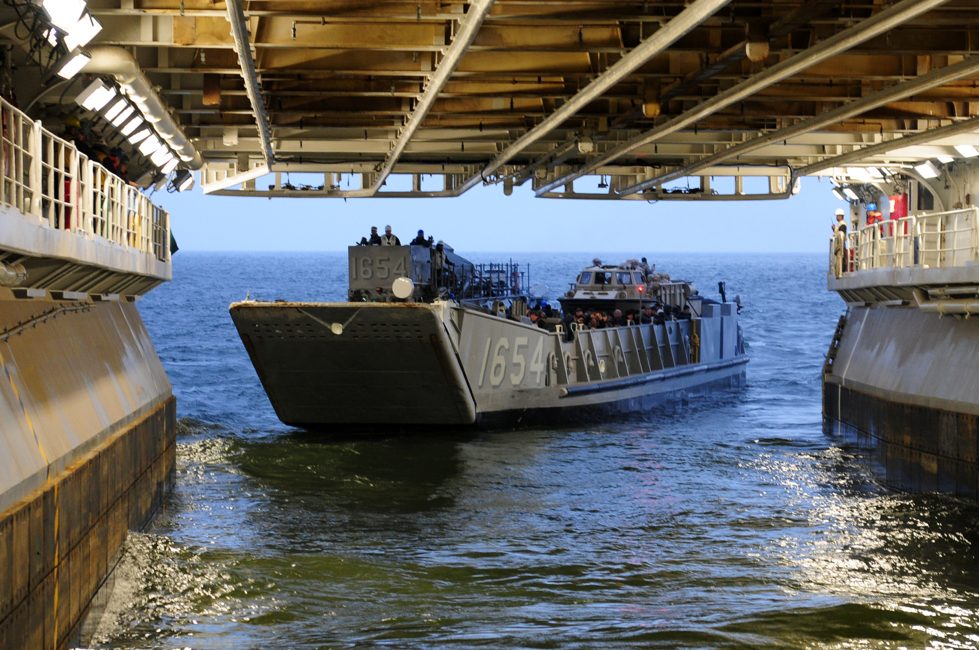 ATLANTIC OCEAN (Jan. 9, 2012) Landing Craft Utility (LCU) 1654, assigned to Assault Craft Unit 2, departs the well deck of the amphibious assault ship USS Kearsarge (LHD 3). Kearsarge is conducting crew certifications in preparation for future amphibious operations. (U.S. Navy photo by Mass Communication Specialist 3rd Class Jonathan Vargas/Released)